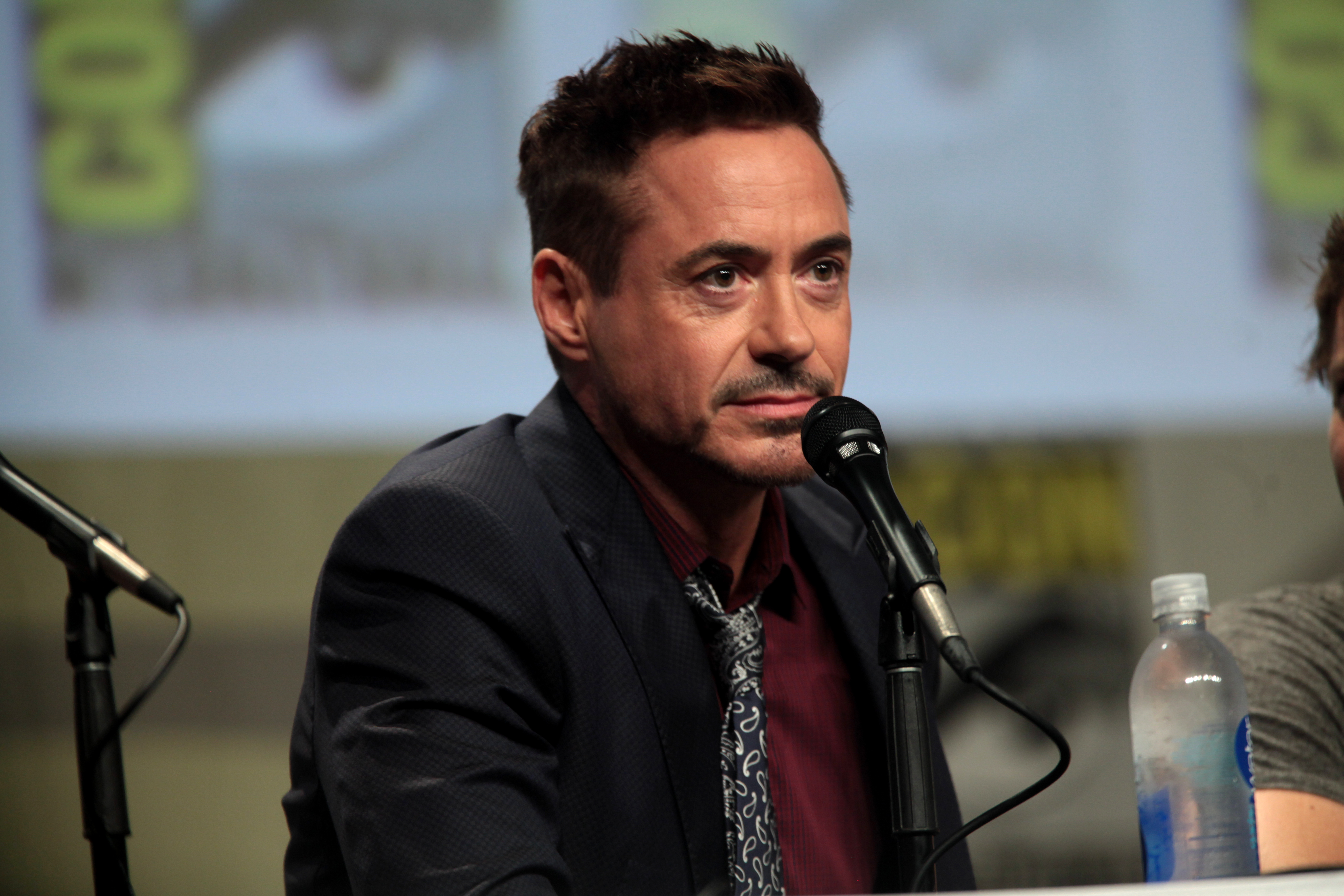 Robert Downey, Jr. speaking at the 2014 San Diego Comic Con International, for "Avengers: Age of Ultron", at the San Diego Convention Center in San Diego, California on July 26, 2014. Photo by Gage Skidmore